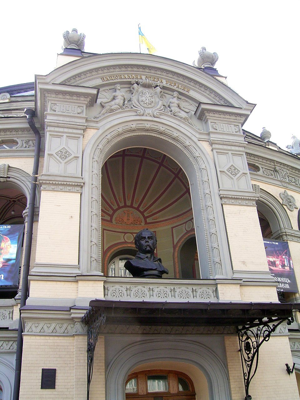 Fasade of the Ukrainian National Opera